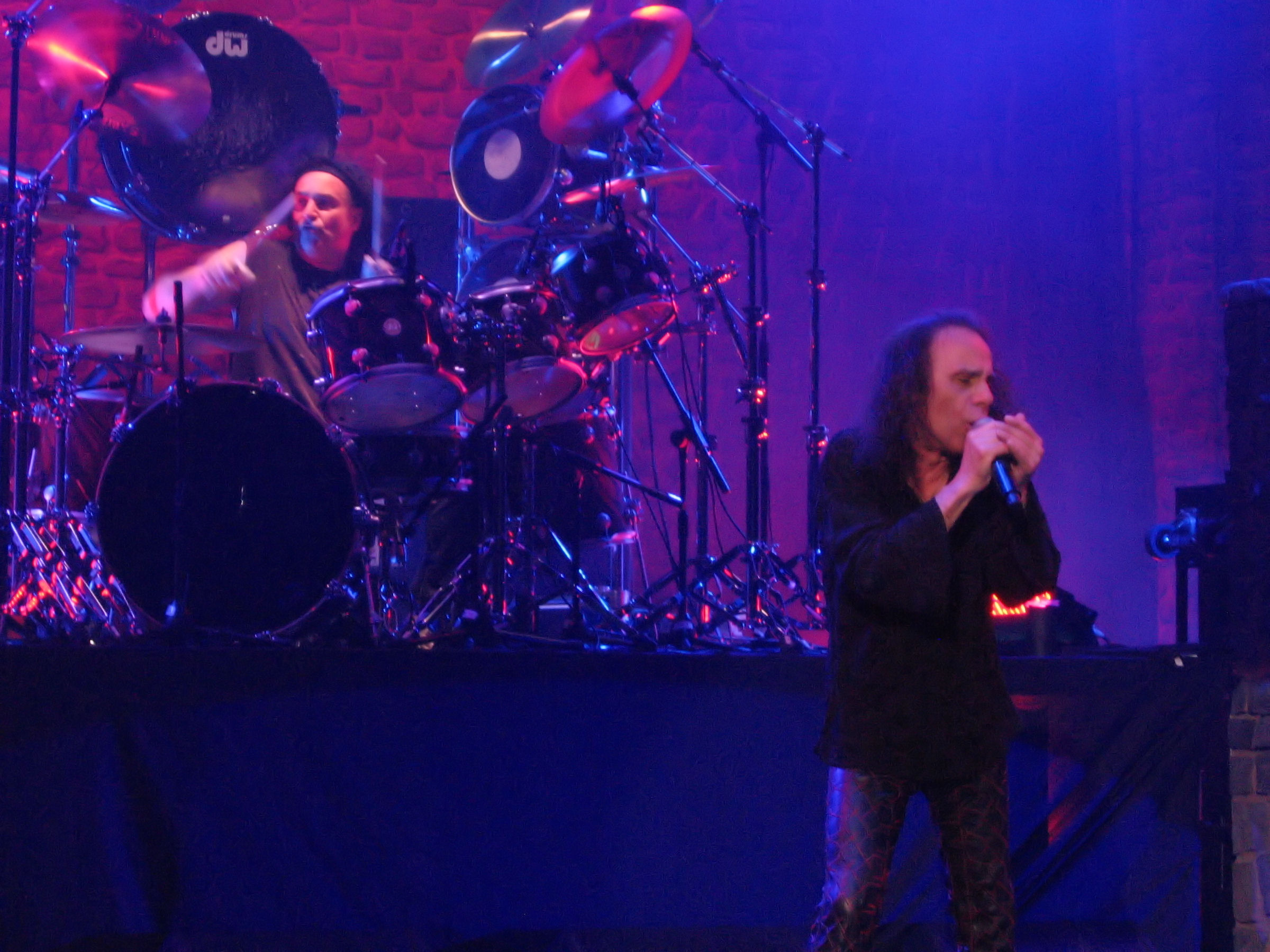 Ronnie James Dio and Vinny Appice from Heaven and Hell during concert in Katowice Spodek 20.06.2007